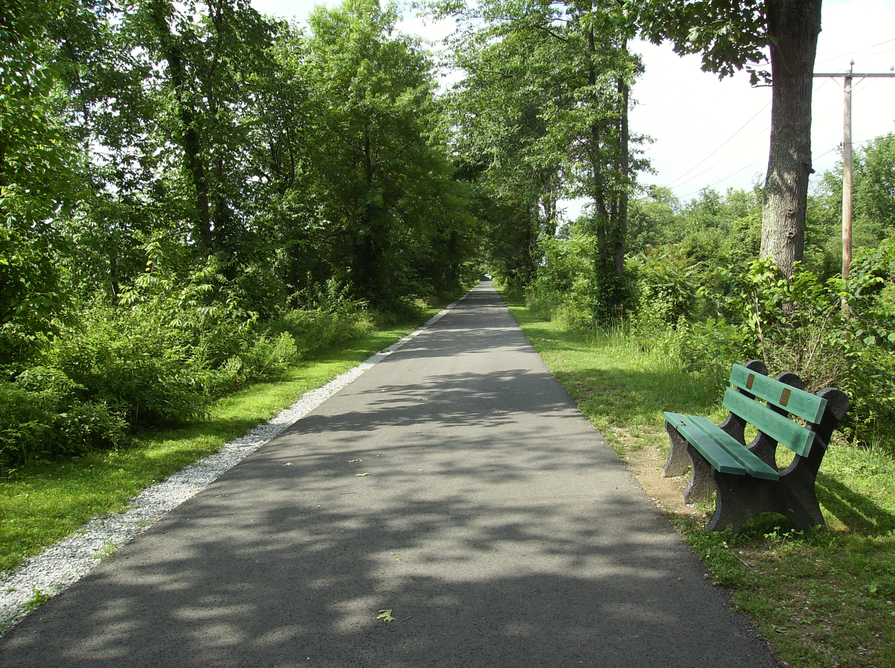 A section of the Walden–Wallkill Rail Trail in the town of Shawangunk, New York.